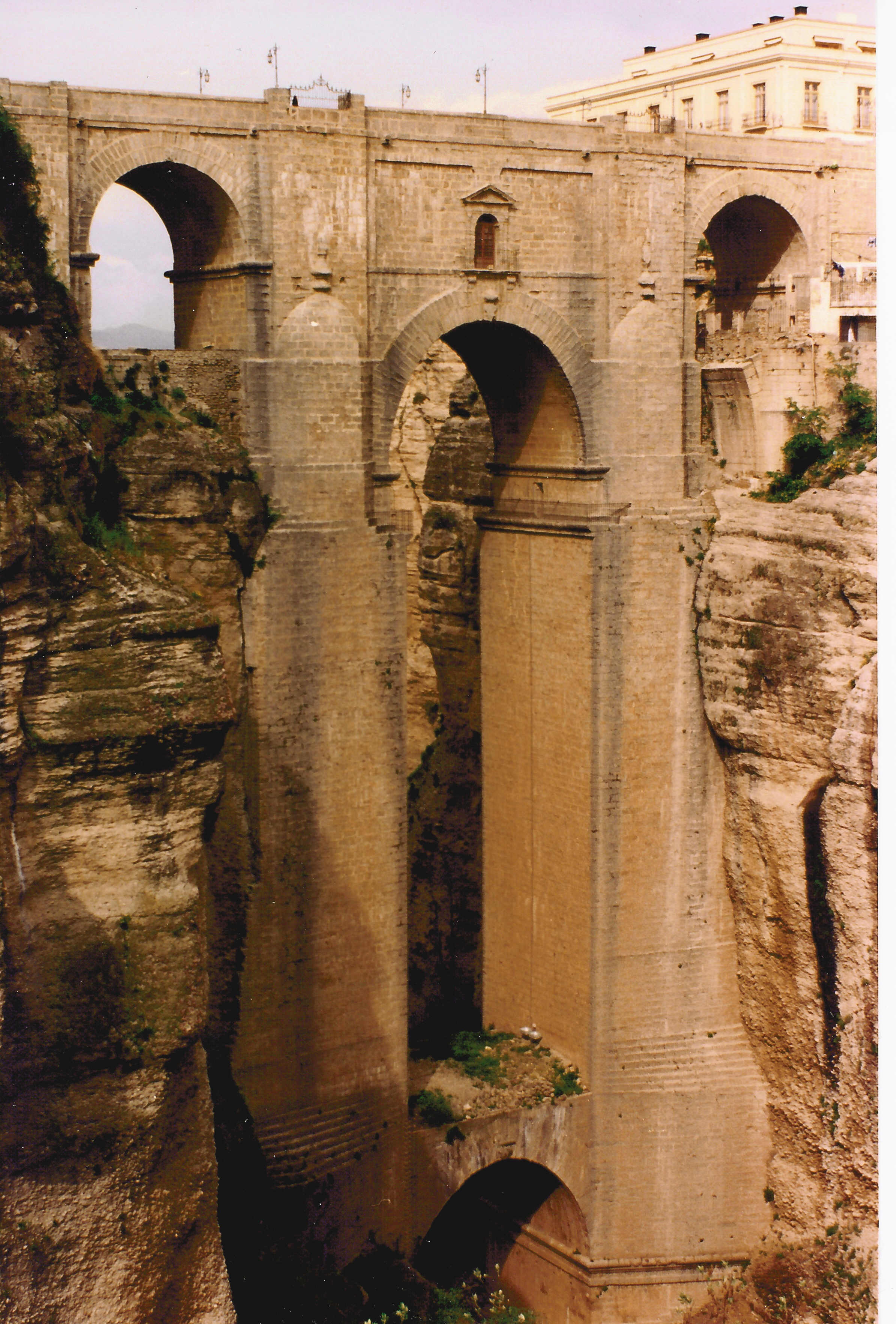 Puente Nuevo, Ronda, Andalusia, Spain.